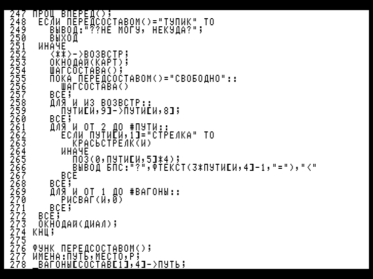 RAPIRA programming language example